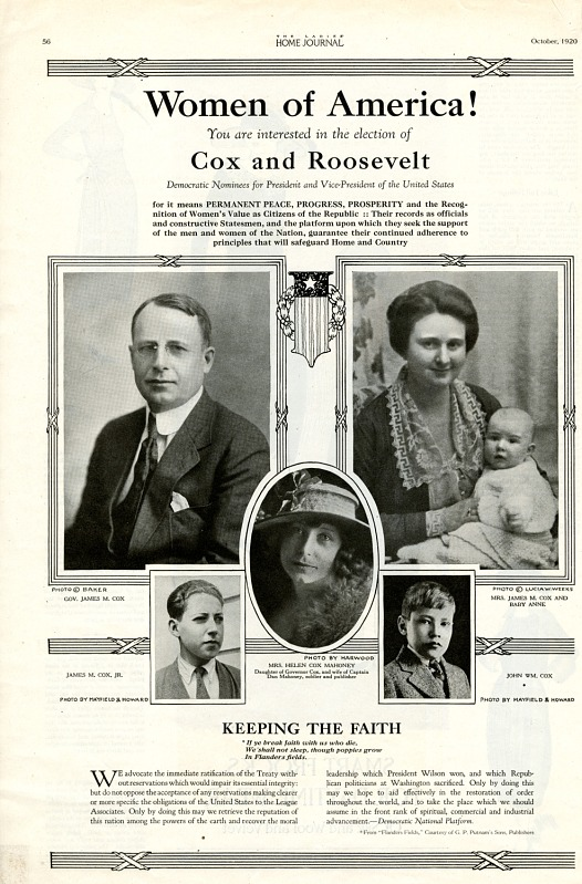 Broadside, campaign advertisement featuring James M. Cox in The Ladies' Home Journal, October 1920. 1980.0606.140. Ad appealed to the mothers among the new voters, asserting that the Democratic candidates would work for peace, keeping children from having to serve in future wars as many of their fathers had just done in World War I.